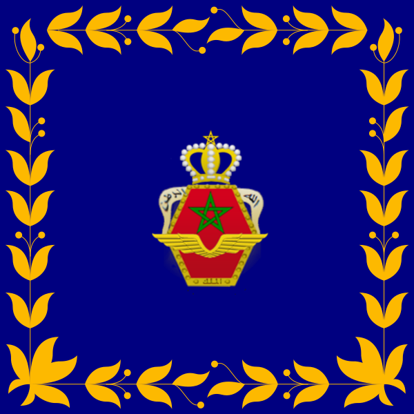 Regimentary flag of the Royal Moroccan Air Force